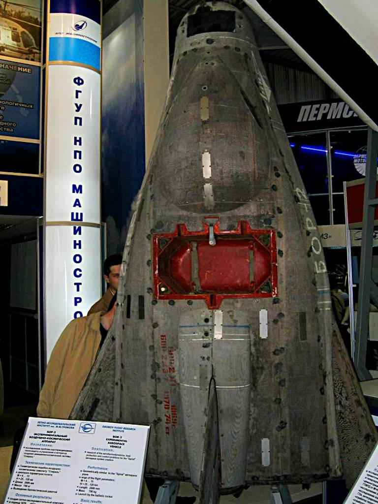 BOR-2 at MAKS, Zhukovskiy, 2005. This was a test article in the Mikoyan-Gurevich MiG-105 Spiral spaceplane program.